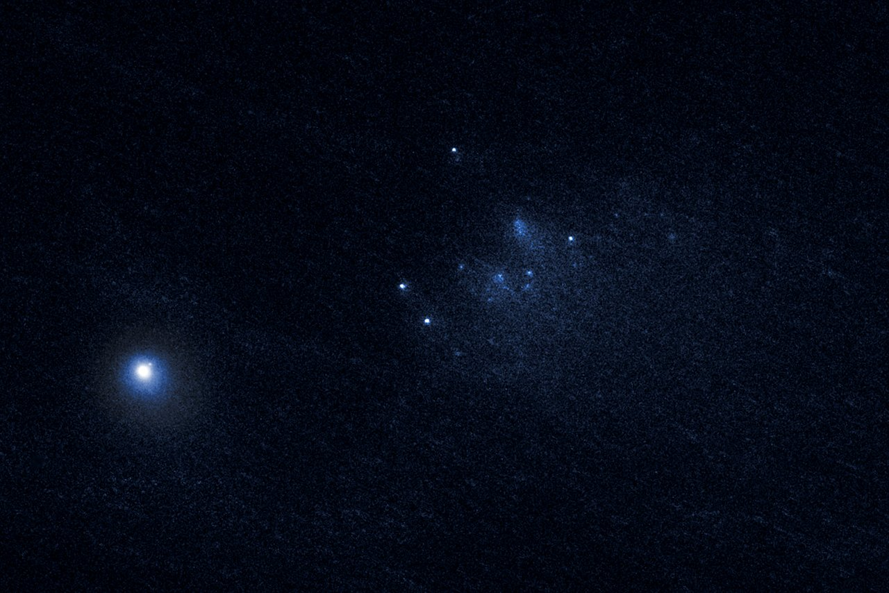 This intriguing new image captured with the NASA/ESA Hubble Space Telescope shows a dust-bathed cluster of fragments from a disintegrated comet. The comet in question, named 332P/Ikeya-Murakami, split into this shower of fragments in the closing months of 2015. Fragmenting comets such as 332P/Ikeya-Murakami have long been objects of fascination for astronomers worldwide. Famously, Comet Shoemaker-Levy 9 disintegrated in 1992, crashing into the atmosphere of Jupiter at nearly 200 000 kilometres per hour, creating scars on it almost half the size of Earth. Though well-studied, objects such as this remain a puzzle to astronomers; no theory fully explains why comets split apart on their long journeys around the Sun. Hubble will continue to observe 332P/Ikeya-Murakami and comets like it, unravelling the nature of these mysterious objects.